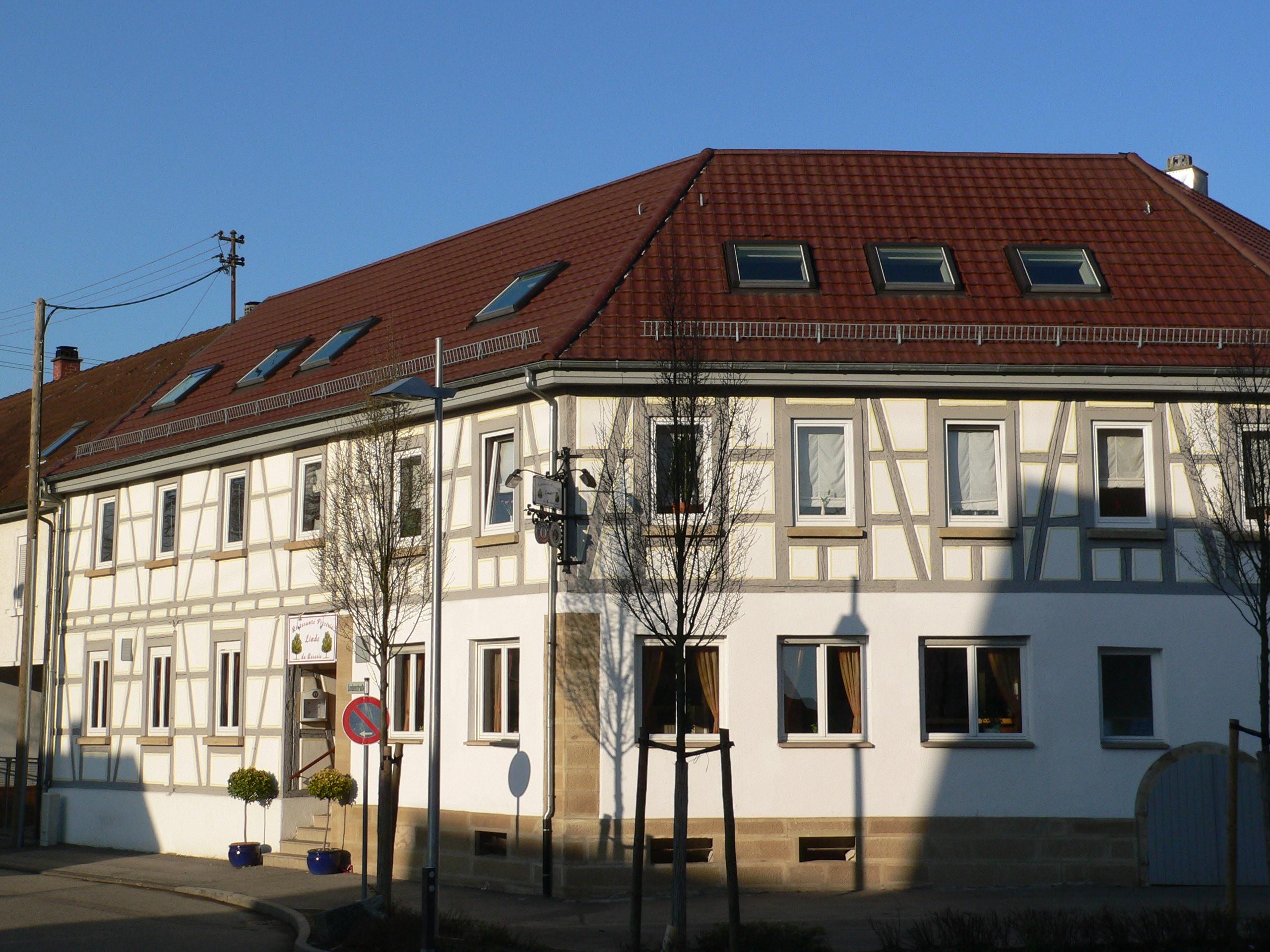 Restaurant (inn) "Zur Linde" of the small town Neckarsulm-Obereisesheim